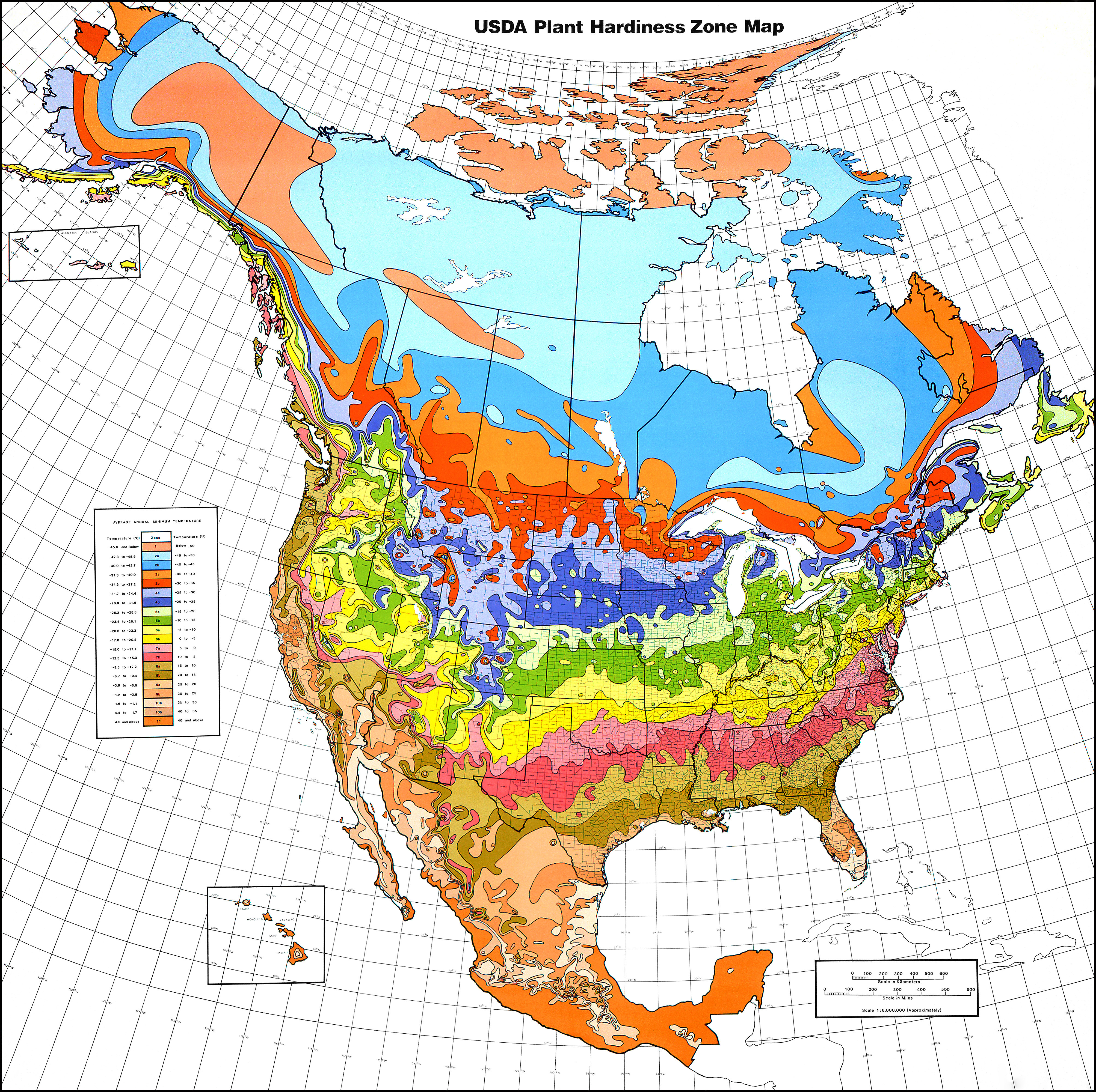 USDA Hardiness Zones in North America. Albers equal area projection, standard parallels of 29.5°N and 45.5°N, scale 1 : 6,000,000 (approx.) 118 × 116 cm (46.5 × 45.7 in) (folded: 30 × 21 cm (11.8 × 8.3 in))